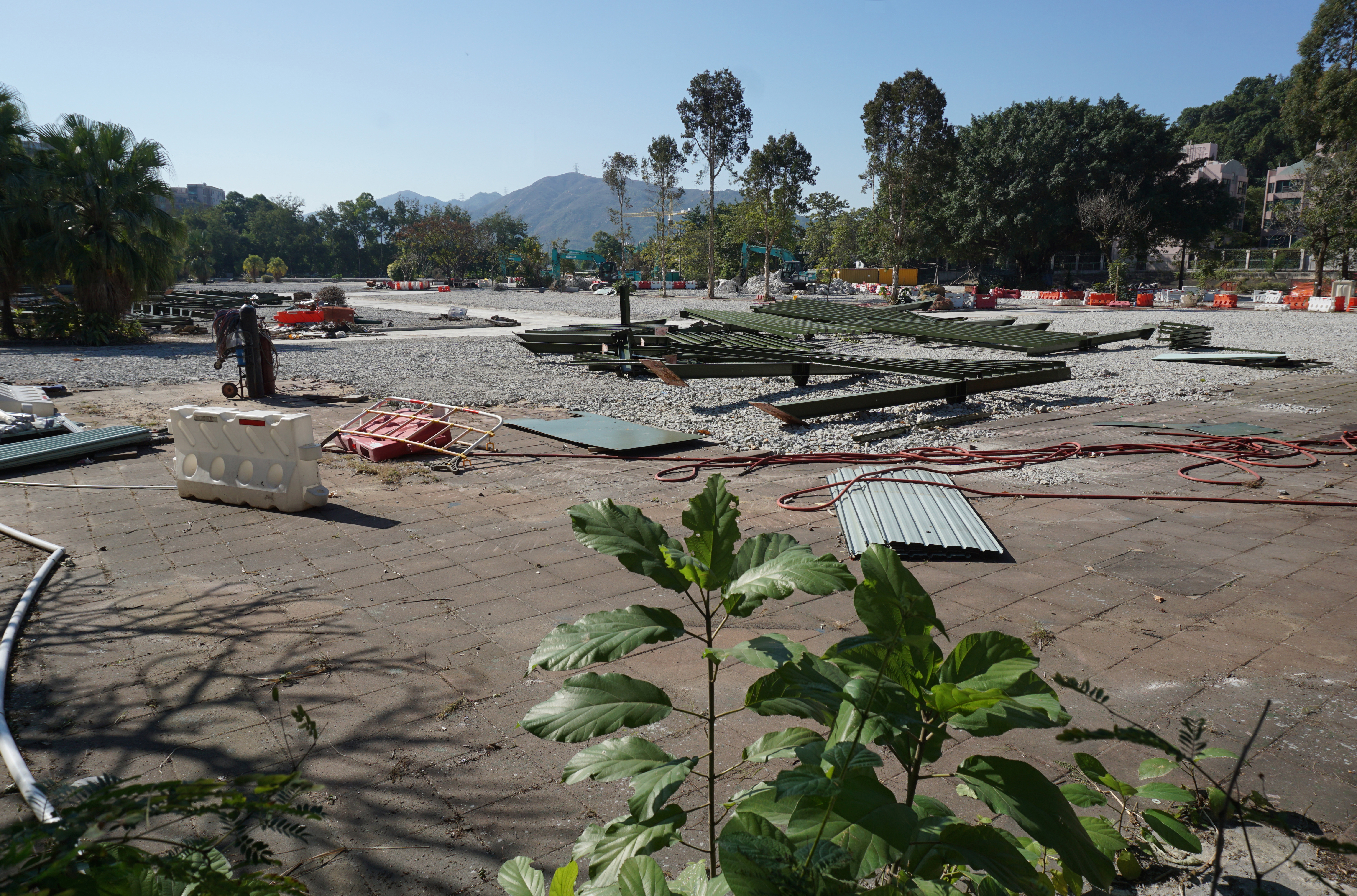 Former Long Bin Interim Housing in Ping Shan, Hong Kong.